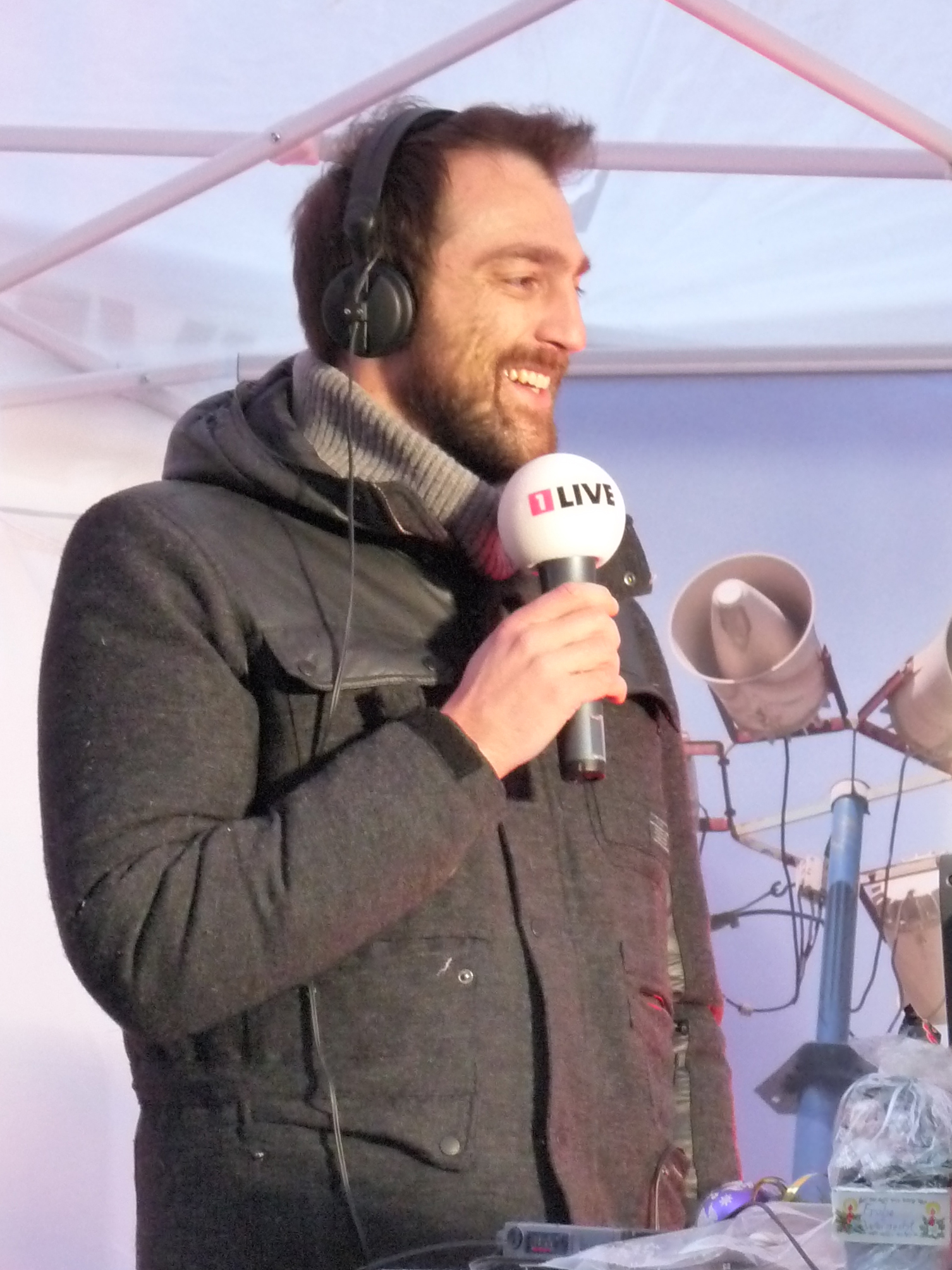 German radio host (1LIVE), christmas market at St. Lamberti in Münster